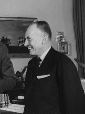 Former President of Colombia, Alberto Lleras Camargo. Oval Office, White House, Washington, D.C.